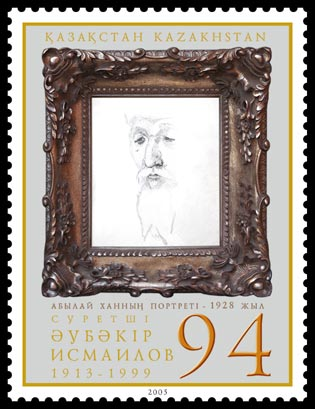 Stamp of Kazakhstan